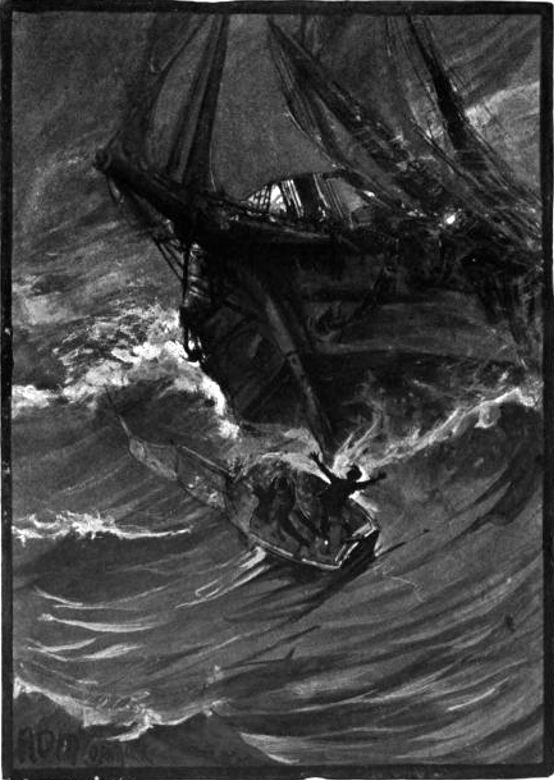 Illustration for Edgar Allan Poe's The Narrative of Arthur Gordon Pym, captioned "Run down by the 'Penguin'" - a scene from the first chapter of the novel. From Arthur Gordon Pym: A Romance By Edgar Allan Poe, published by Downey & co., 1898